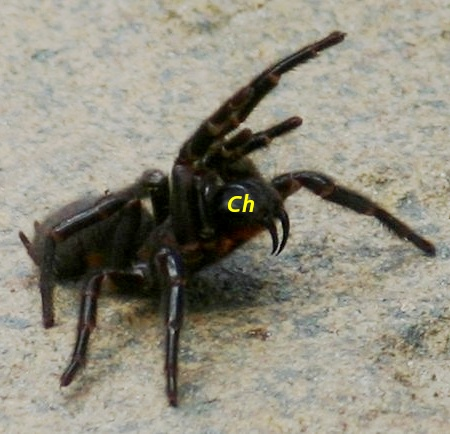 Orthognathous chelicerae of Atrax robustus